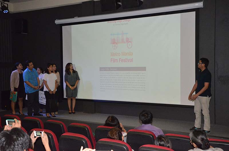 The launch of the new logo for the Metro Manila Film Festival.